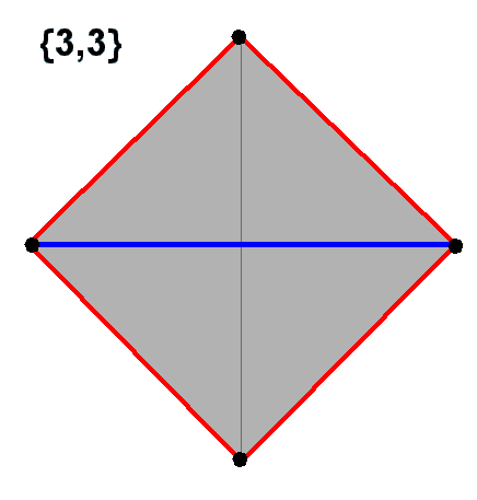 en:Petrie polygon tetrahedron